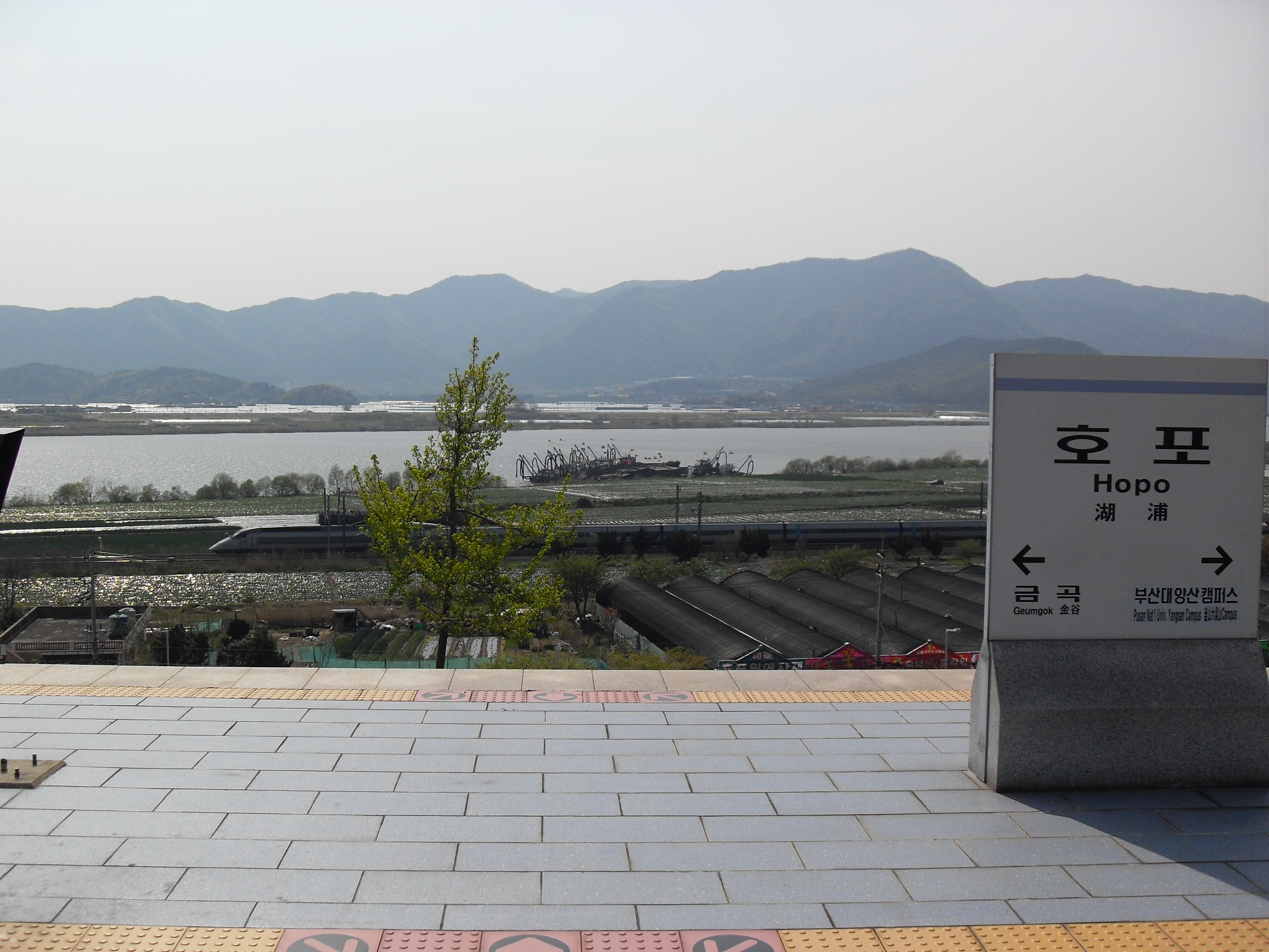 Not using Hopo Station platform. There is a KTX train in Gyeongbu Line.